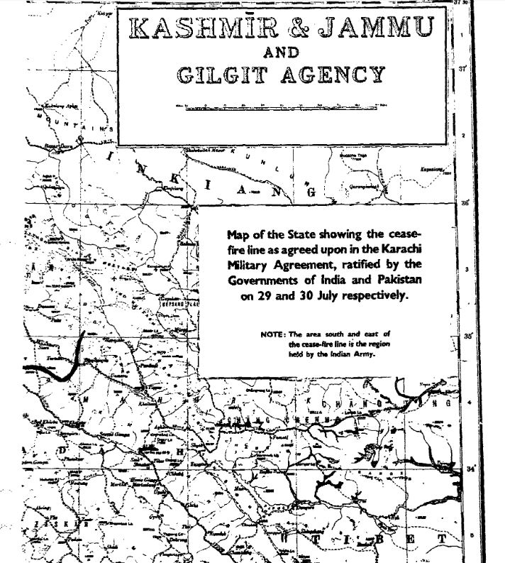 Page-3 of UN Map number S/1430/Add.2 UNITED NATIONS COMMISSION FOR INDIA AND PAKISTAN Map of the State of Jammu and Kashmir showing the Cease Fire Line as Agreed Upon in the Karachi Agreement, Ratified by the Governments of India and Pakistan on 29 and 30 July Respectively (See Annex 26 to the third Interim Report of the United Nation Commission for India and Pakistan